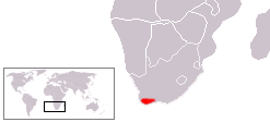 rangemap of the Bluebuck (Hippotragus leucophaeus)